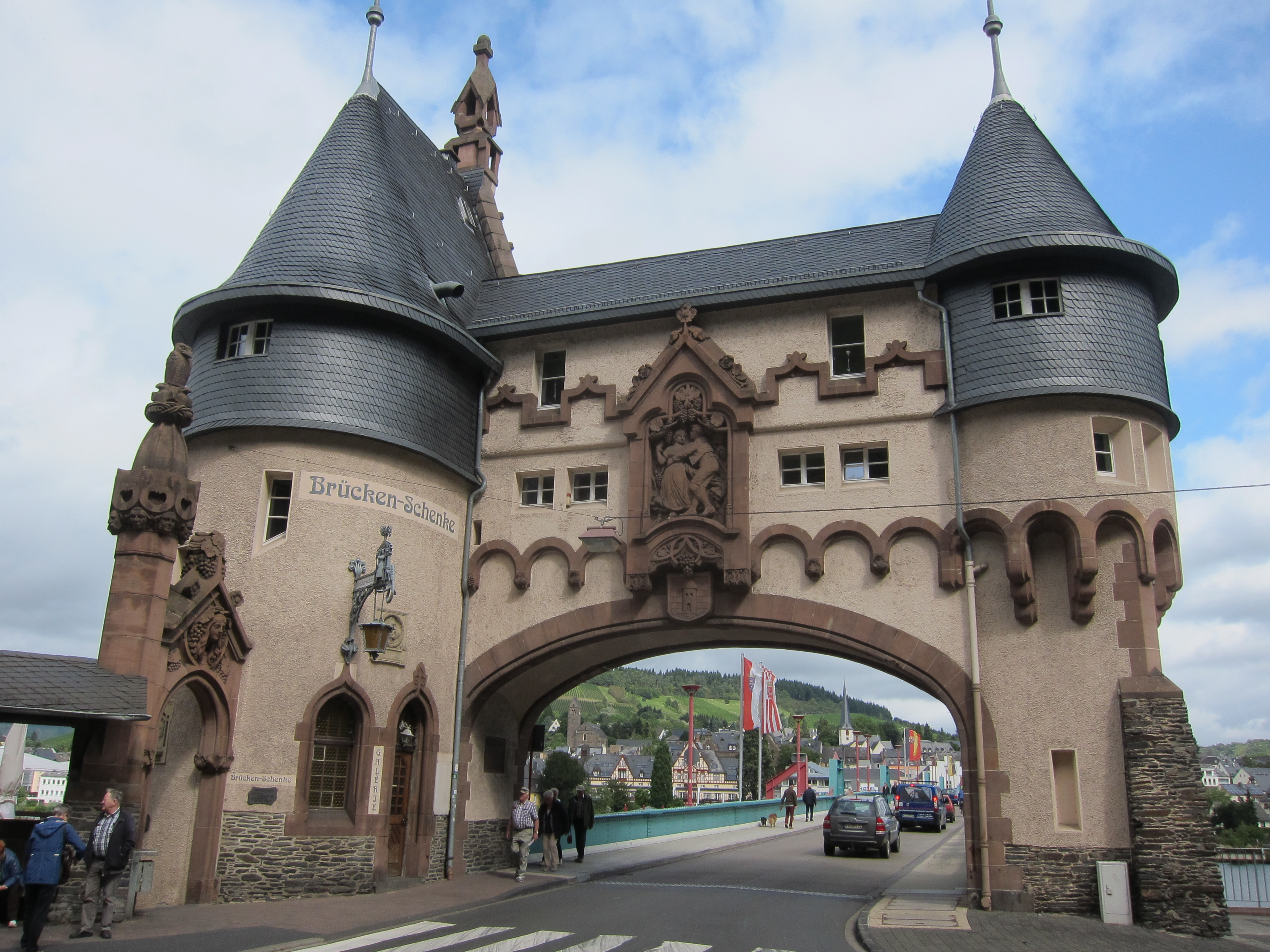 Gate building at the Traben citypart of the Mosel bridge Traben-Trarbach